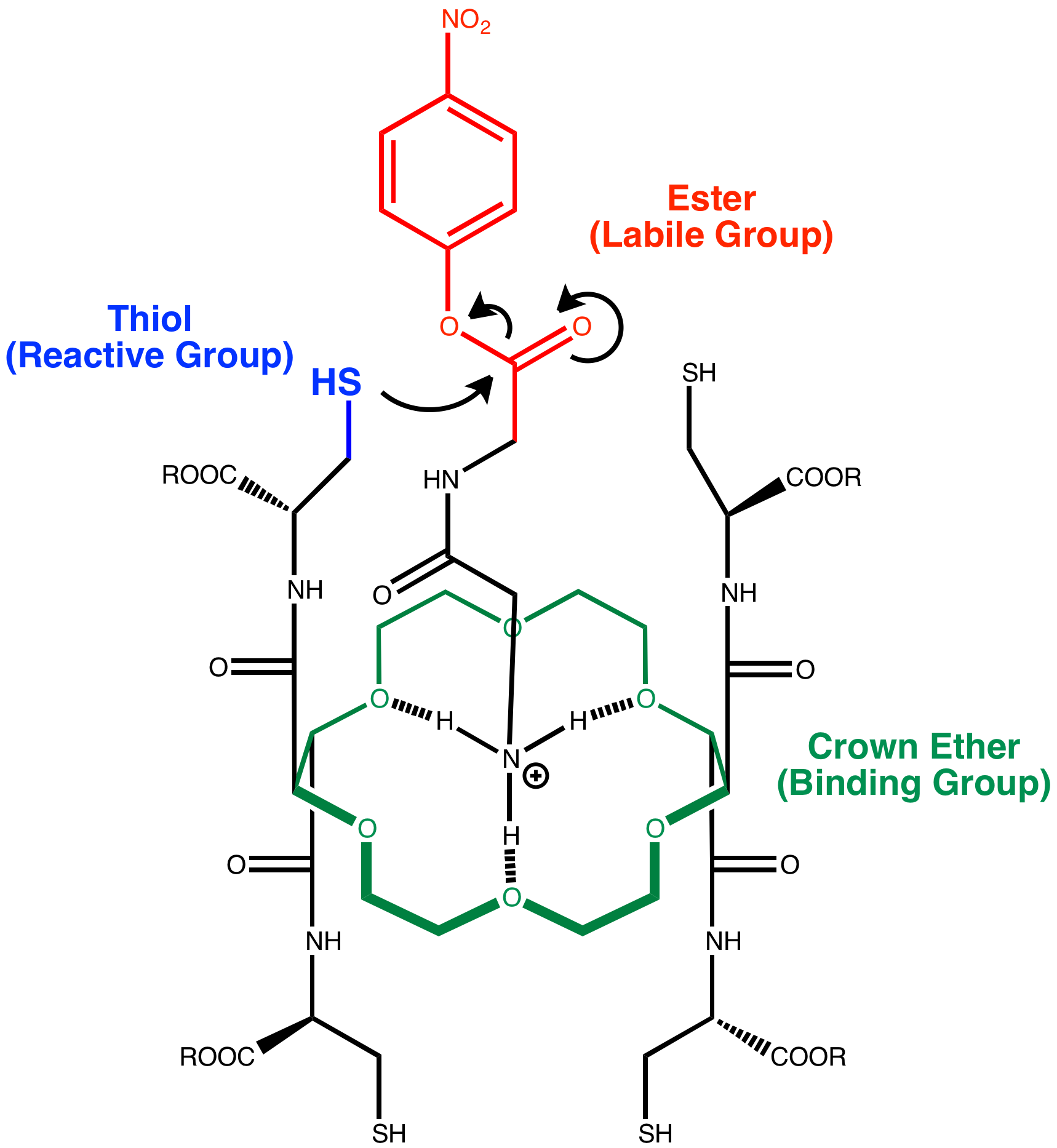 A chiral substituted crown ether catalyst developed by Jean-Marie Lehn and his research group that accelerates hydrolysis of ester.